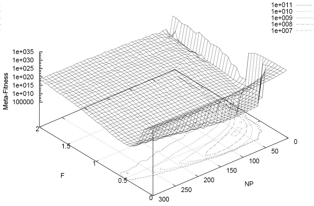 Performance landscape showing how basic Differential Evolution (DE) performs in aggregate on several benchmark problems when varying the two DE parameters NP and F, and keeping fixed CR=0.9. Lower meta-fitness values means better DE performance. Such a performance landscape is very time-consuming to compute, especially for optimizers with several behavioural parameters, but it can be searched efficiently using the simple meta-optimization approach by Pedersen implemented in SwarmOps to uncover DE parameters with good performance.